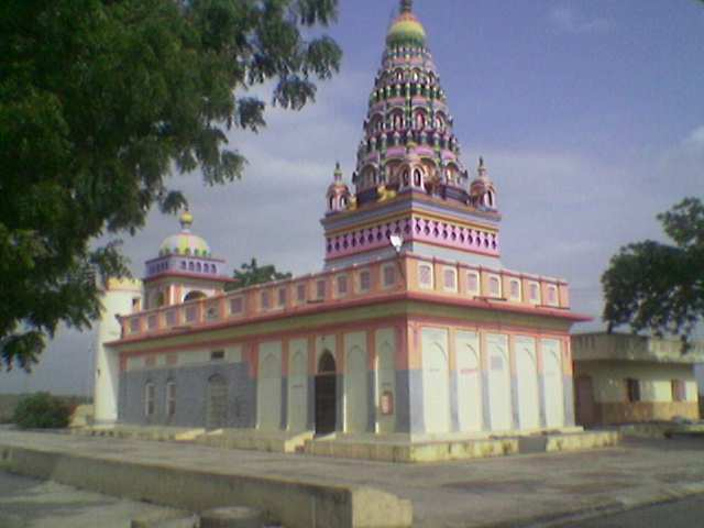 Picture of Datt Mandir taken by me by my mobile during my visit to sarangkheda. It is one of the most beautiful mandir in Nandurbar district of Maharashtra state of India